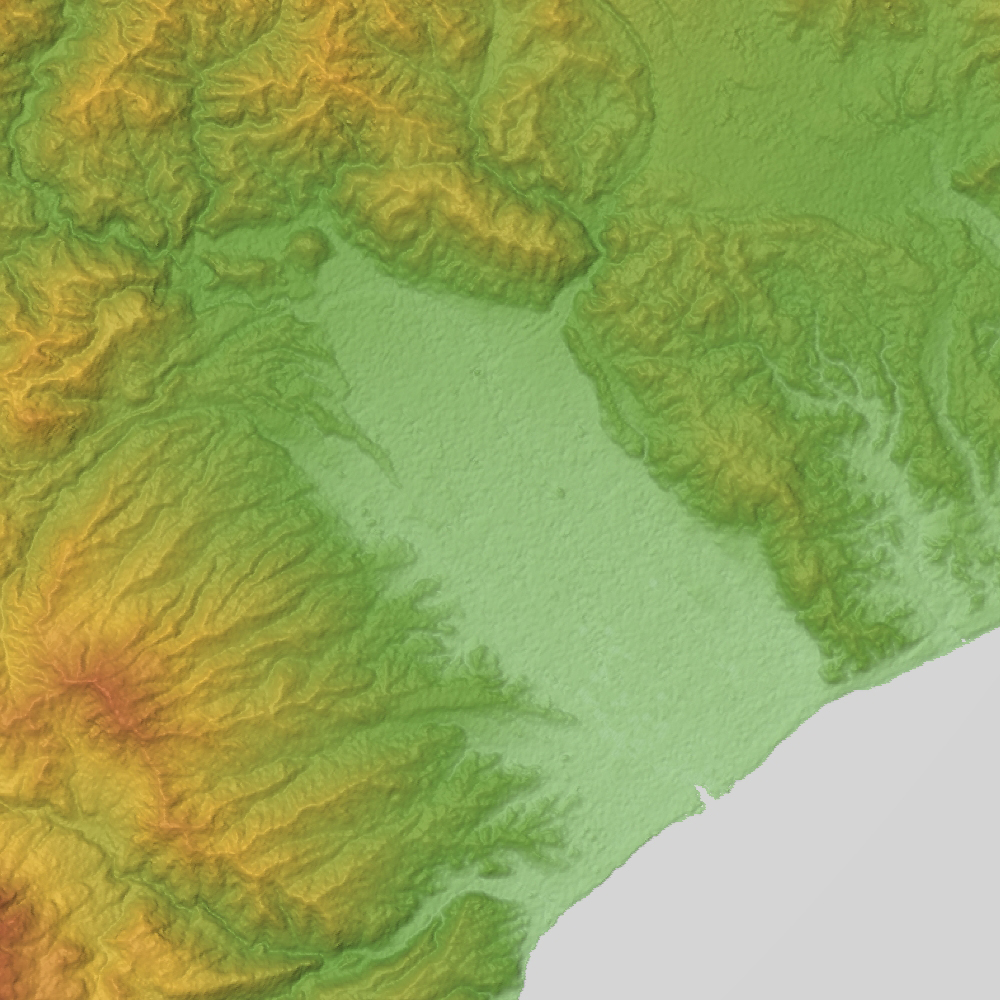 Ashigara Plain in Kanagawa Prefecture, Honshu, Japan.